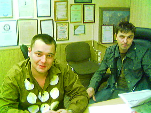 Sergey Zhukov and Aleksey Potehin of Ruki Vverh! in 2005.